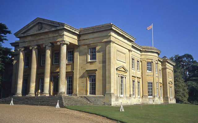 Spetchley Hall. Classical Palladian mansion, built in 1811 for the Berkeley family by architect John Tasker. Not open to the public, but sits in 30 acres of formal garden, which is well worth a visit. This house was to be Winston Churchill's residence and seat of government should the Germans have invaded the south-east in World War II, with the royal family moving to Madresfield Court near Malvern (477152). This view of the hall can be seen in the Father Brown tv episode "The Curse of Amenhotep" (2015).